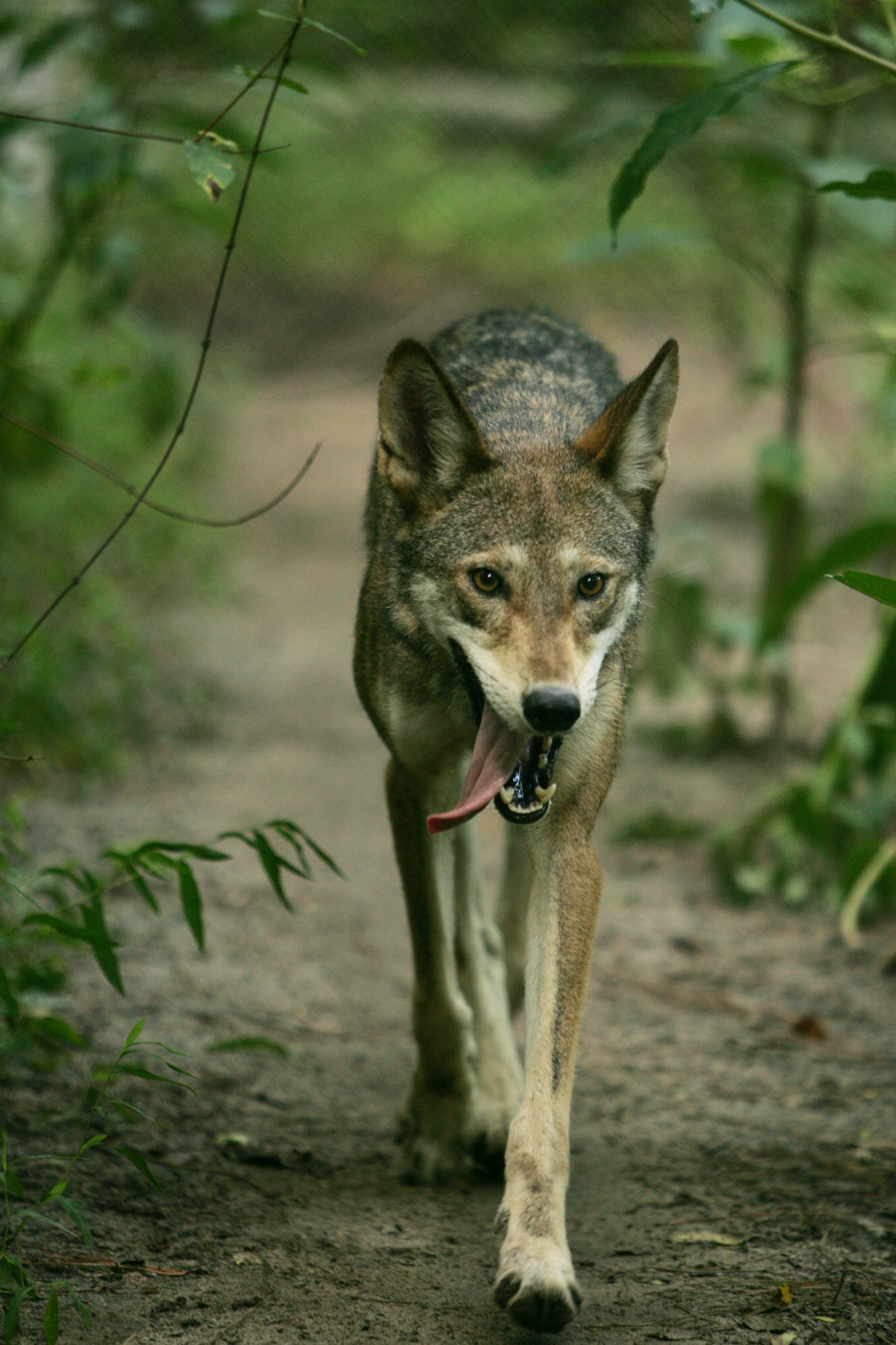 A beautiful Red Wolf strolls by on his path at the Alligator River national Wildlife Refuge.